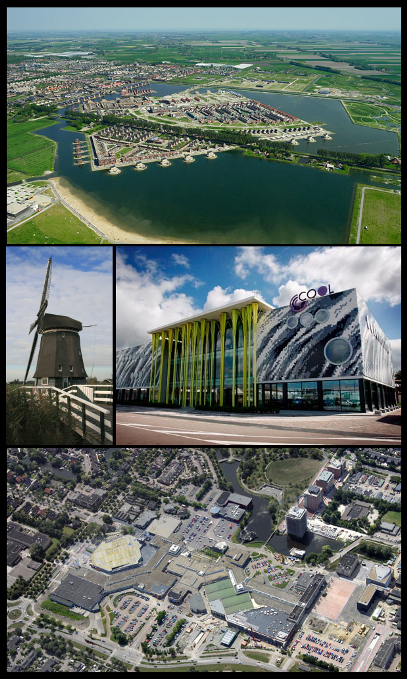 Collage of photos